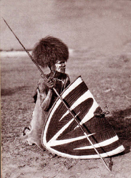 Luo warrior.